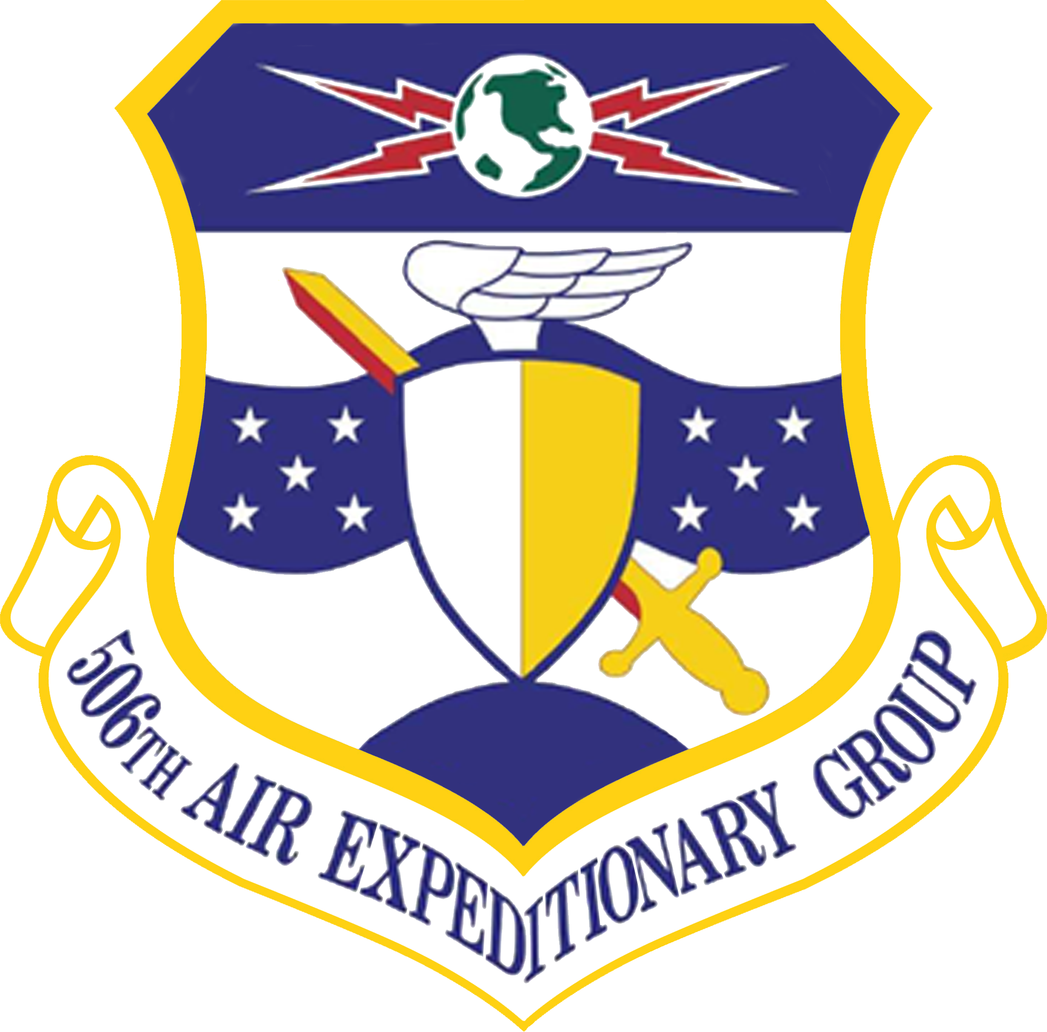 506th AEG Logo